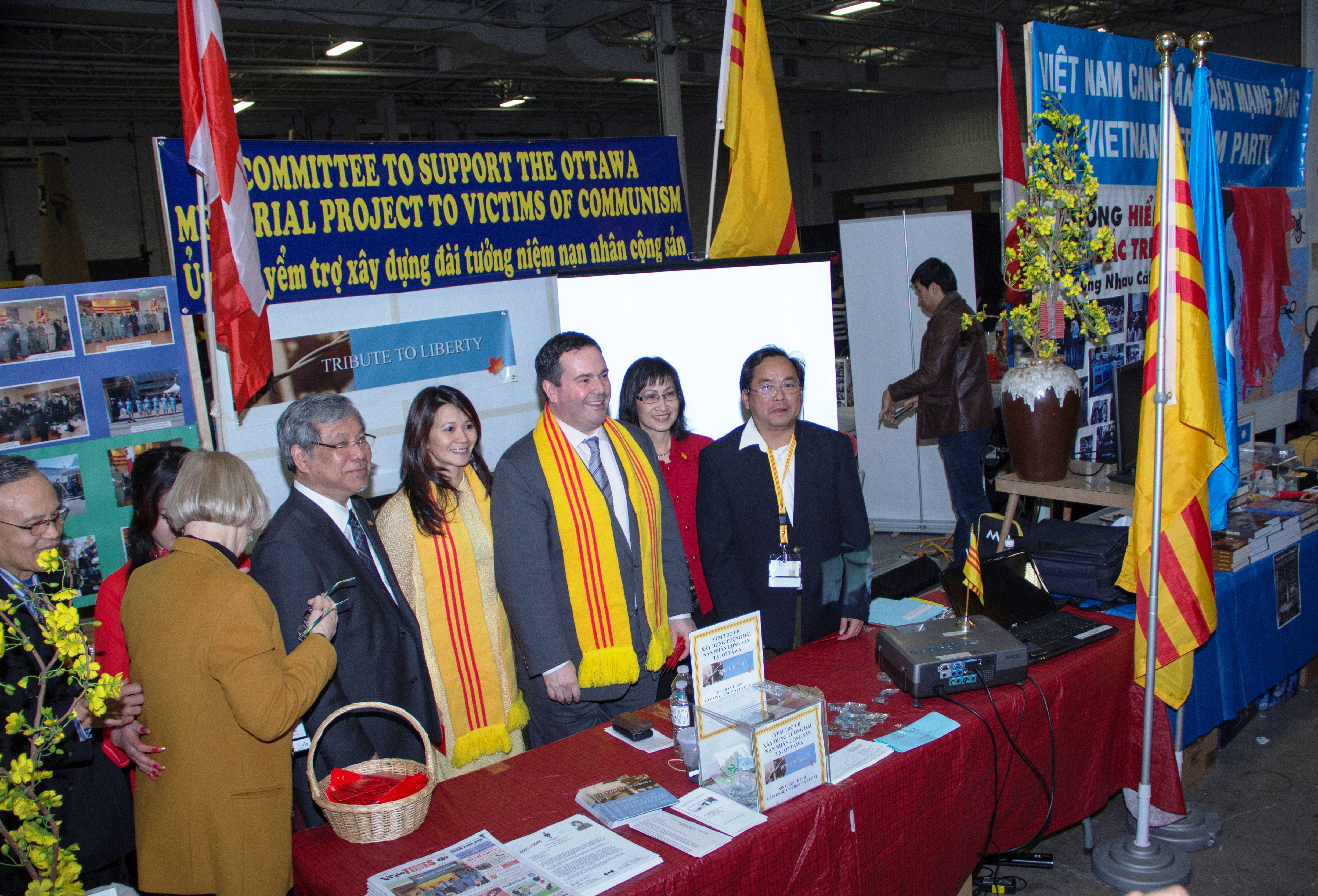 Mr. Jason Kenney and Mr. Ngo Thanh Hai paid a visit to the Tet holiday event at International Convention Centre in Mississauga. Jan.19,2013.